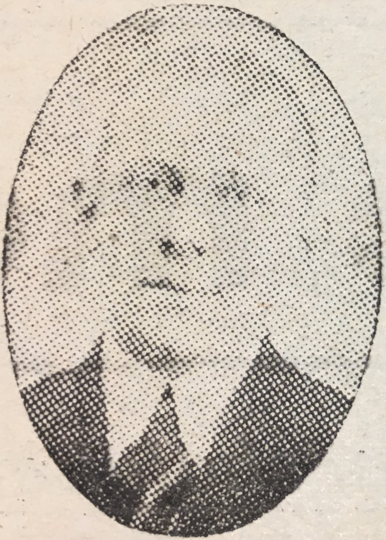 Portrait of the football player Hemming Nielsen of B 1908 — Top goal scorer of the 1927–28 KBUs A-række.